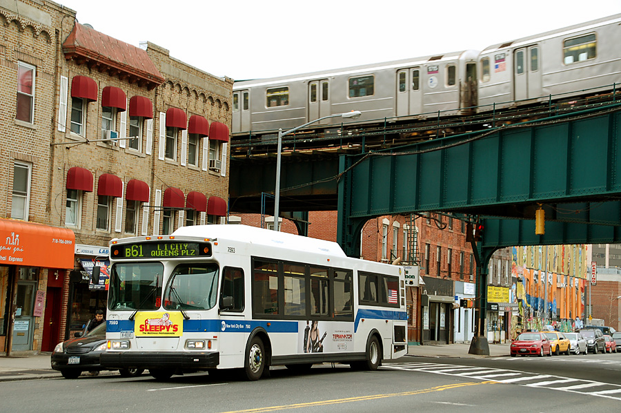 A sample of the services provided by MTA New York City Transit. An Orion VII CNG bus is seen in the foreground while operating on the B61 route, while a subway train composed of R62A cars on the 7 line passes overhead.